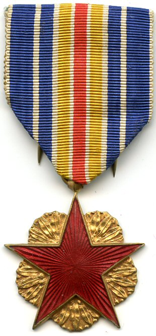 Medal for the MIlitary Wounded (France) early variant